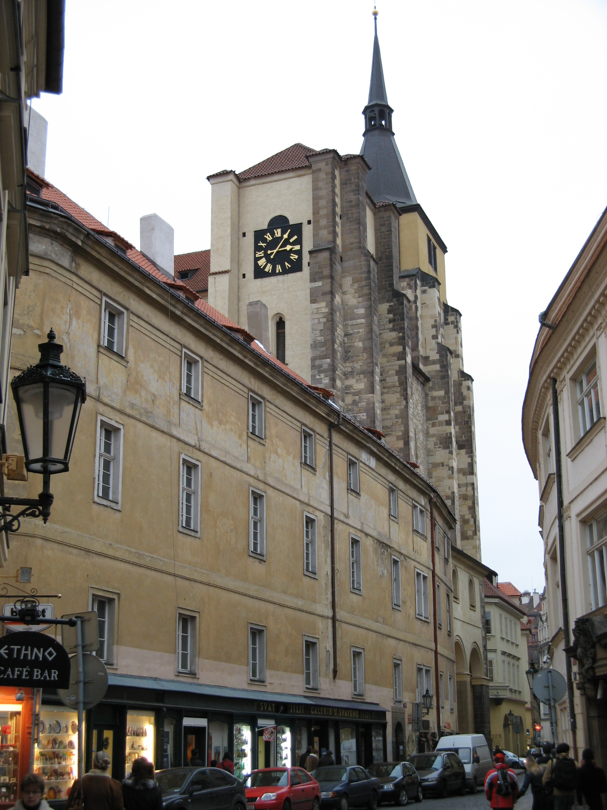 St Gilles's church in Prague.